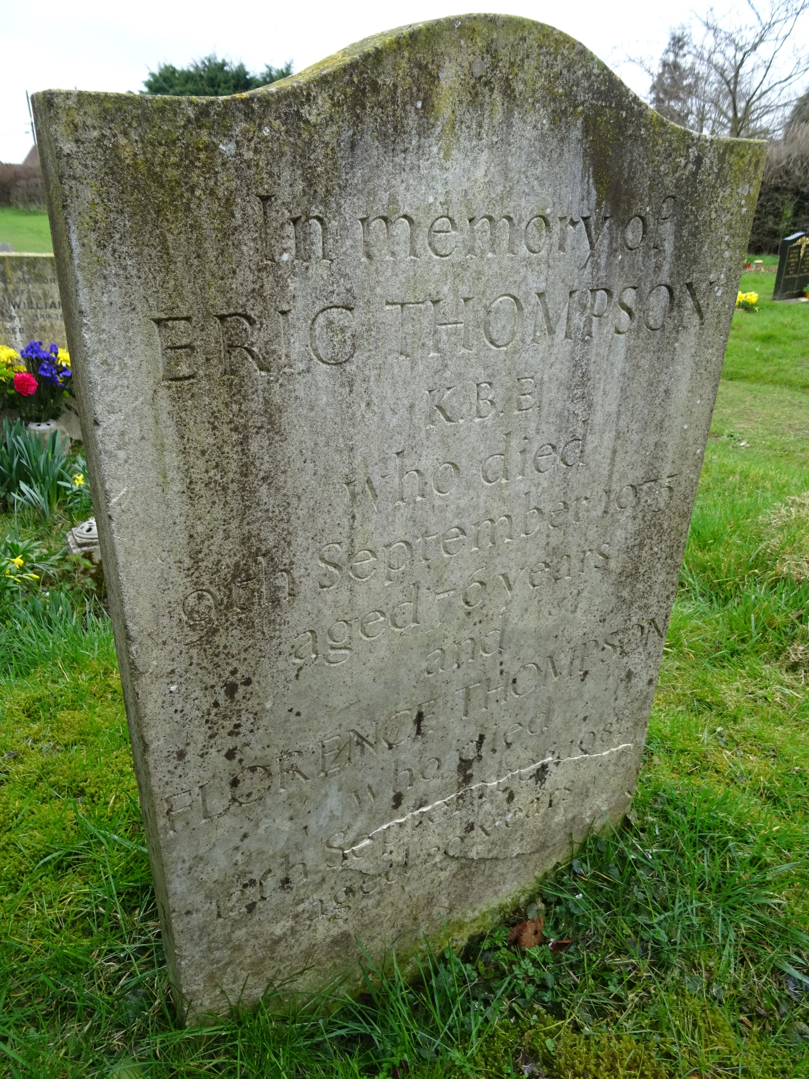 Tombstone of Mayanist Sir J. Eric S. Thompson (1898-1975) in Ashdon, Saffron Walden, Essex, England